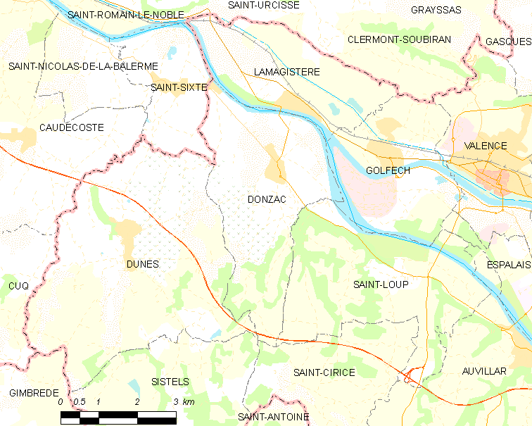 Map of French municipality Donzac